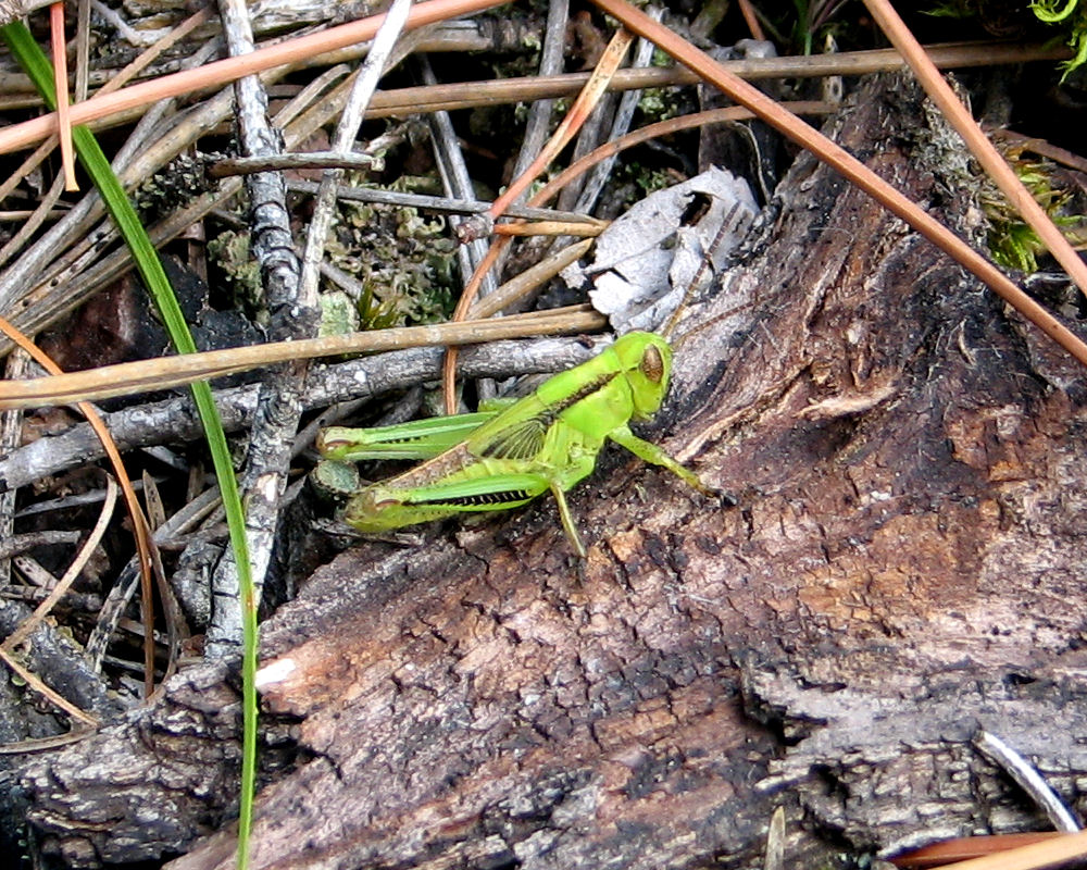 Differential Grasshopper (Melanoplus differentialis), 4th stage juvenile, Mer Bleue Conservation Area, Ottawa, Ontario